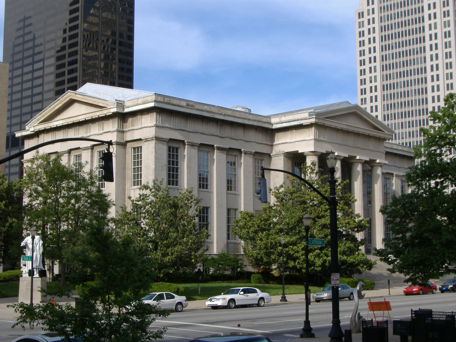 Image of the Jefferson County Courthouse in Louisville, Kentucky, which is on the National Register of Historic Places.